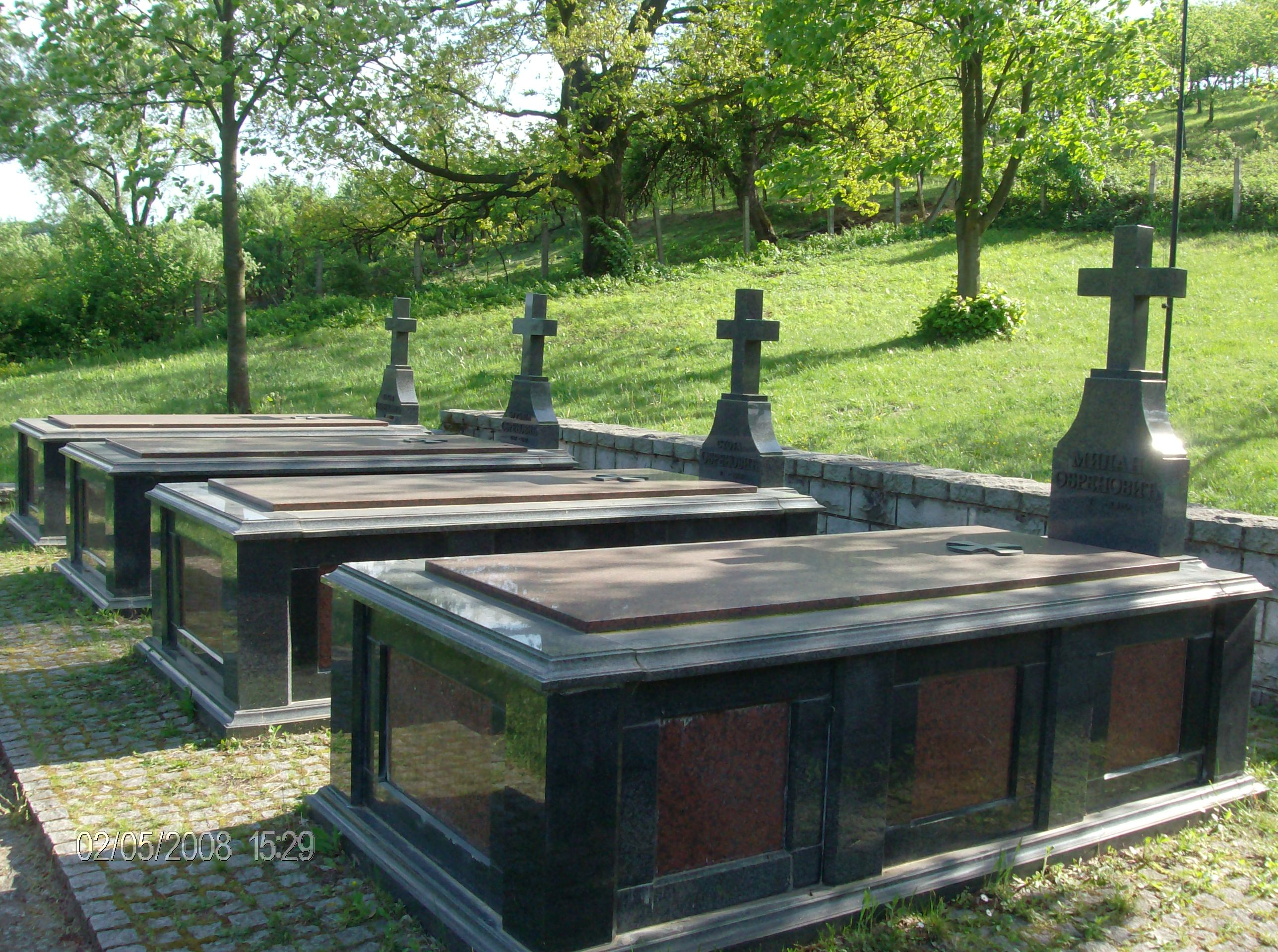 Graves of Obrenovics in Brusnica